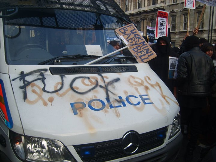 The vandalised police van in Trafalgar Square during the 24 November 2010 student protests